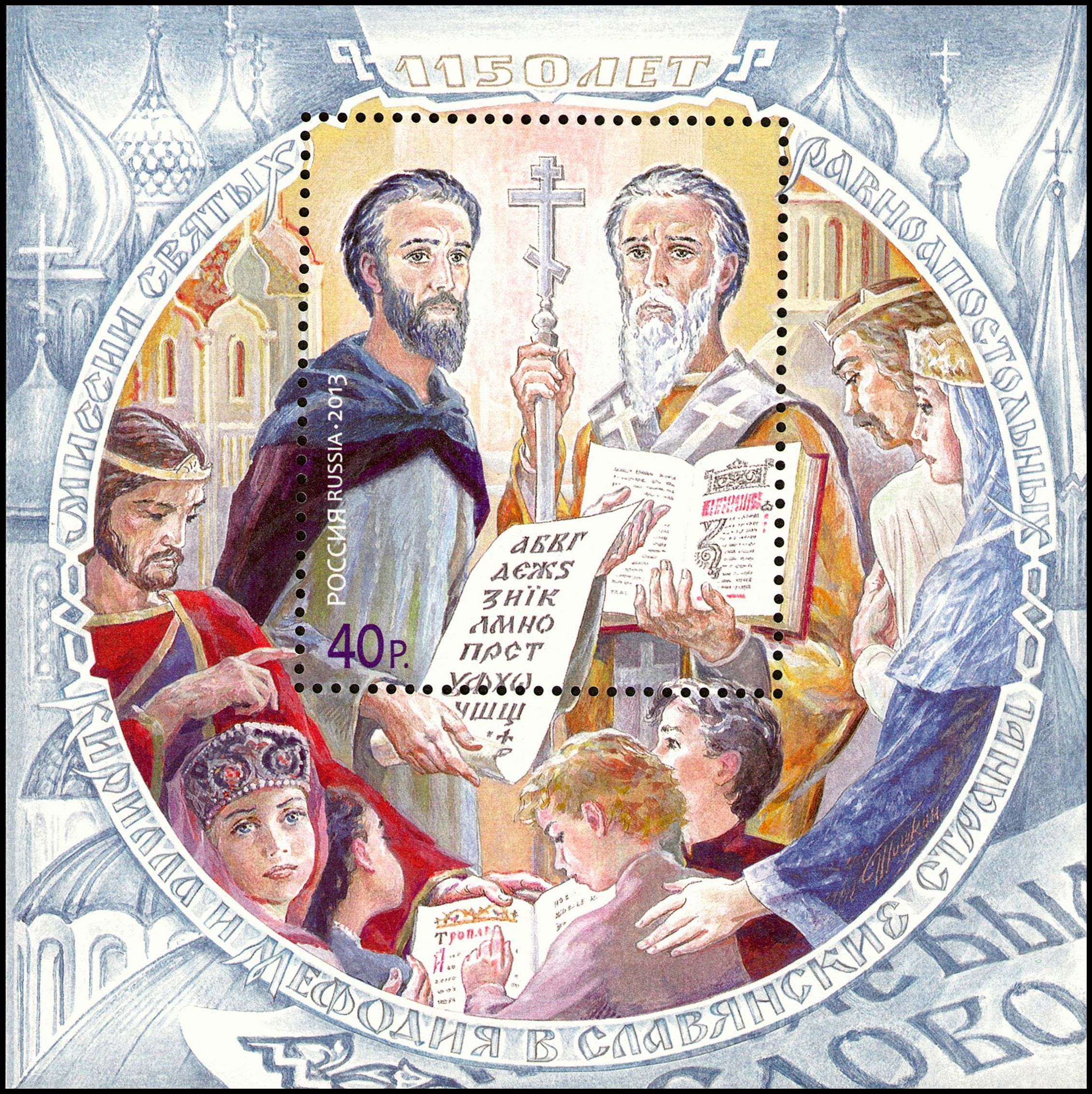 1150th anniversary of the mission of Saint, Equal-to-the-Apostles, Cyril and Methodius to the Slavic countries. The souvenir sheet of Russia, 1 stamp×40.00 Rubles, 24 May 2013, PTC Marka Catalogue No 1699, Michel No 1932 (Block 184). Coated paper. Offset printing. Perforation: frame 12×12½ . The size of the souvenir sheet: 95×95 mm. The size of the stamp: 42×50 mm. Print run: 85,000.The brothers Saint Cyril the Philosopher (827–869) and Saint Methodius of Thessalonica (815–885) among believers[1].